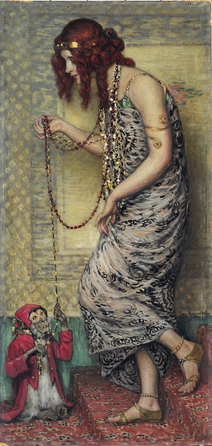 Note: This is a different painting than the one in the Latvian National Museum of Arts